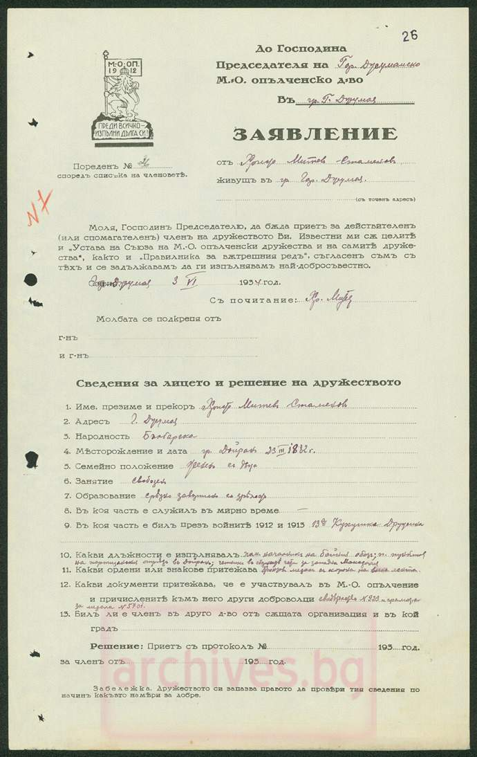 Hristo_Mitev_Stamenov's Document